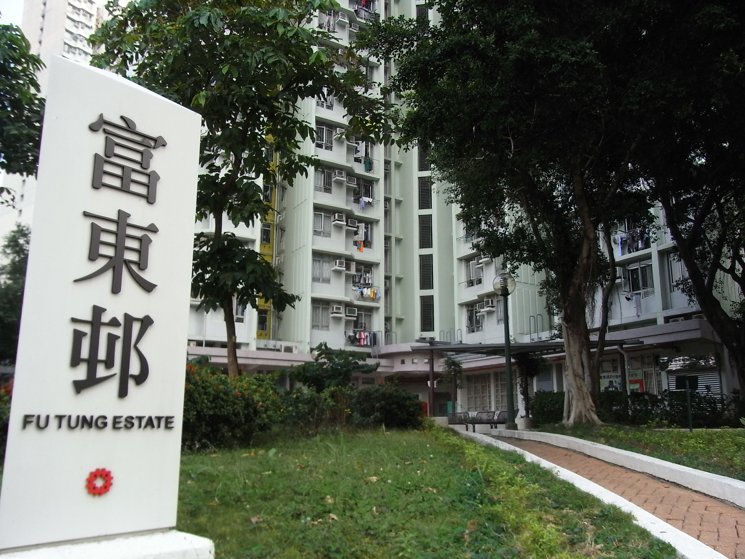 東涌 富東邨, Fu Tung Estate, Tung Chung, Islands District, Hong Kong